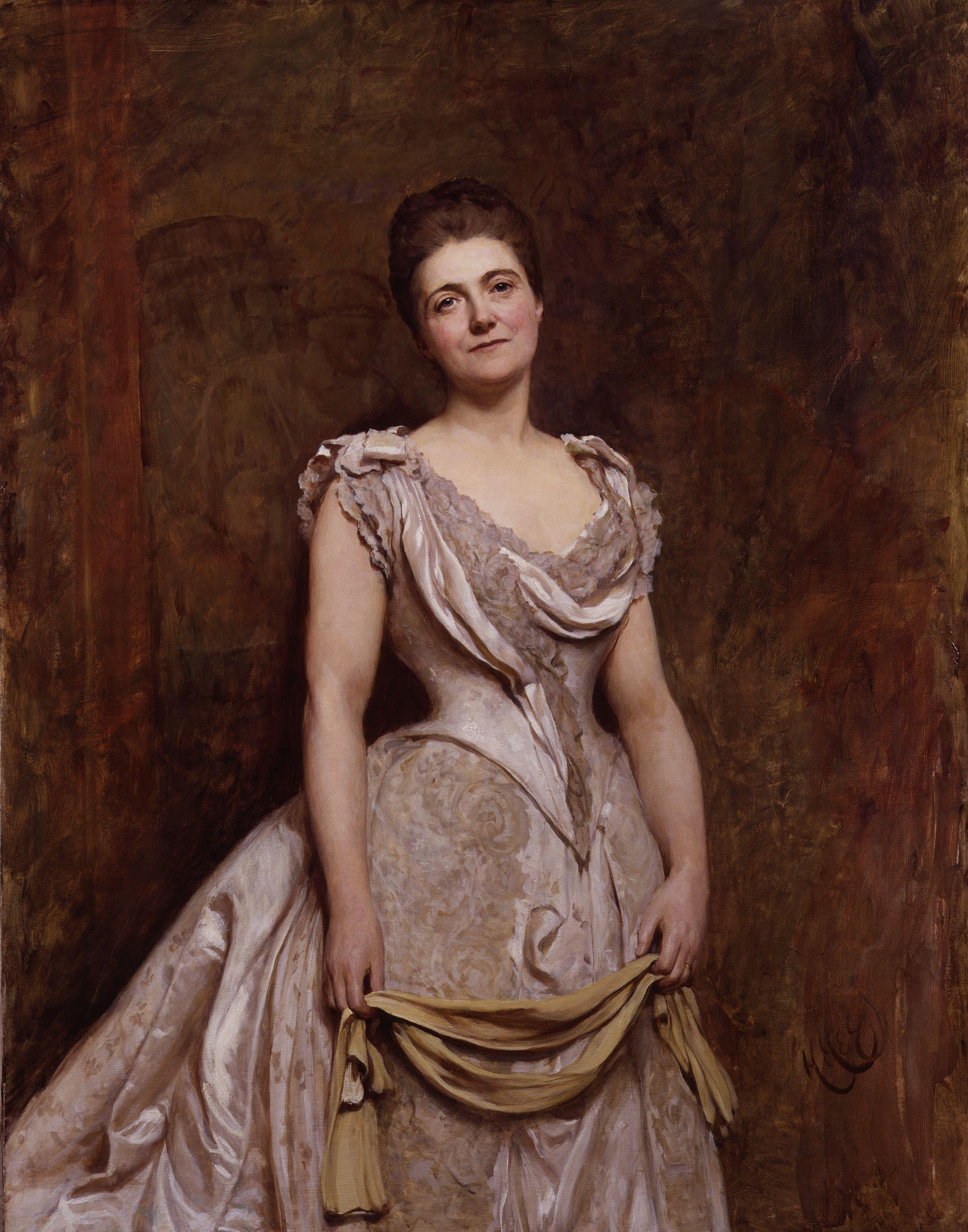 All images in this batch have been confirmed as author died before 1939 according to the official death date listed by the NPG.